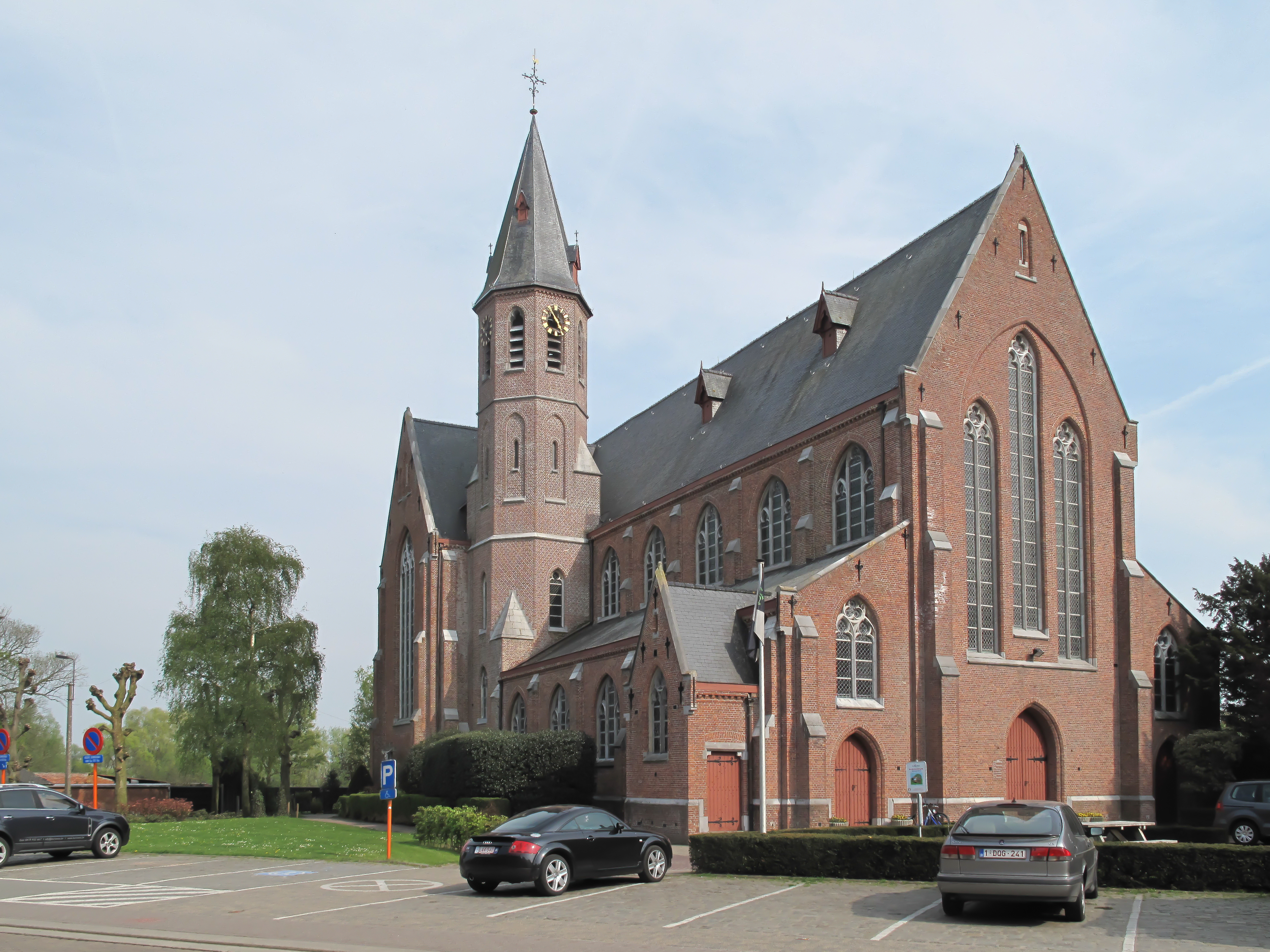 Heiende, church: de Heilig Hartkerk